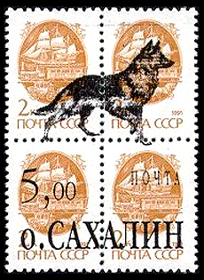 USSR stamps, Sakhalin island (forged overprint), 1991, 5 r.